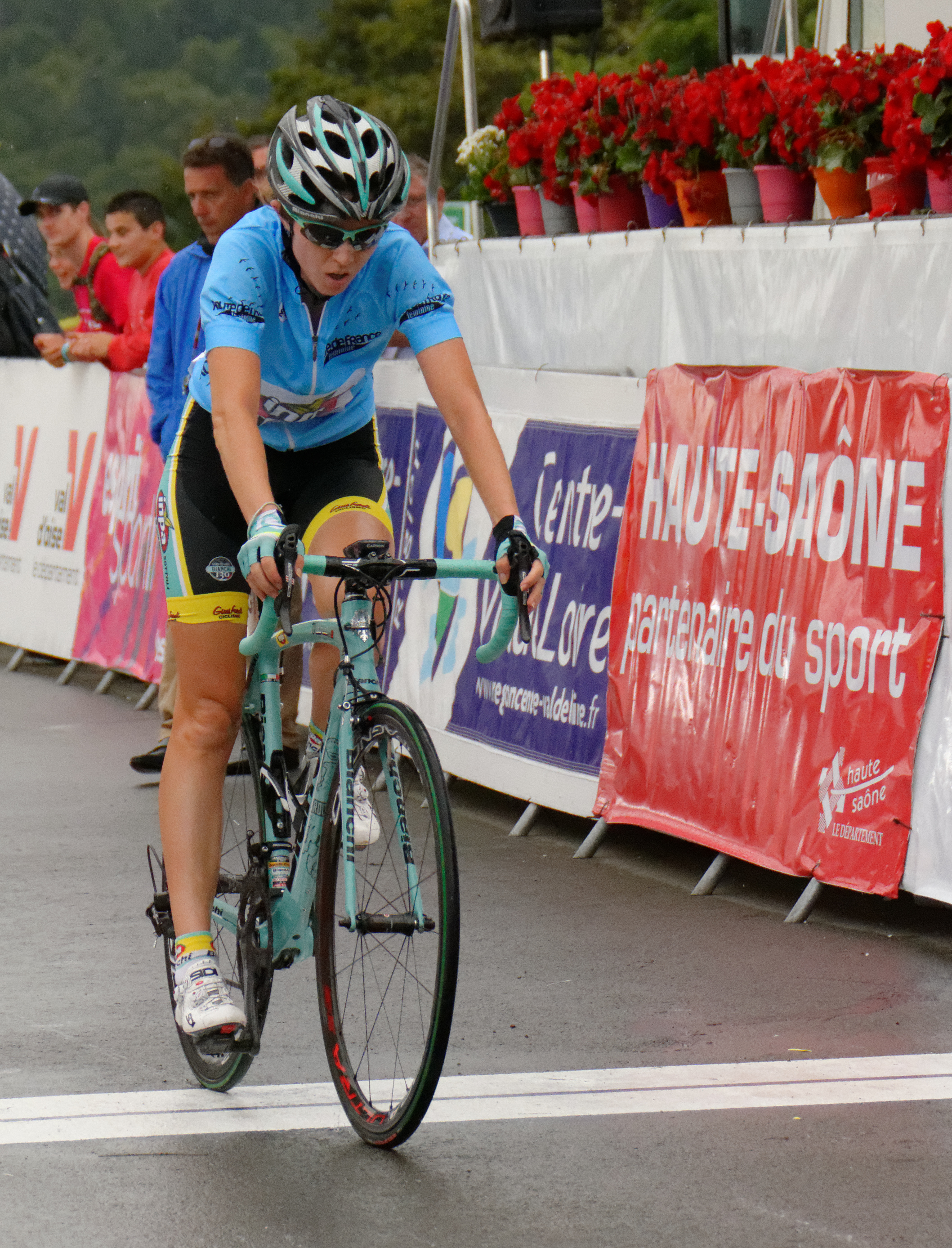 Personality rights warningAlthough this work is freely licensed or in the public domain, the person(s) shown may have rights that legally restrict certain re-uses unless those depicted consent to such uses. In these cases, a model release or other evidence of consent could protect you from infringement claims.